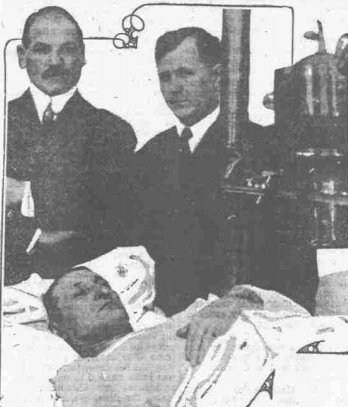 Charles Moyer under X-ray at St. Luke's Hospital in Chicago after he was shot. Also pictured are Yanco Terzich and John H. Walker.